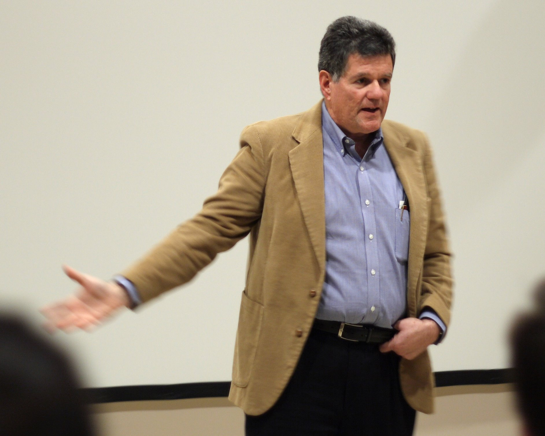 Wayne Goldner, an OB/GYN and abortion rights activist who is the subject of the documentary Live Free or Die (2000 film) |Live Free or Die